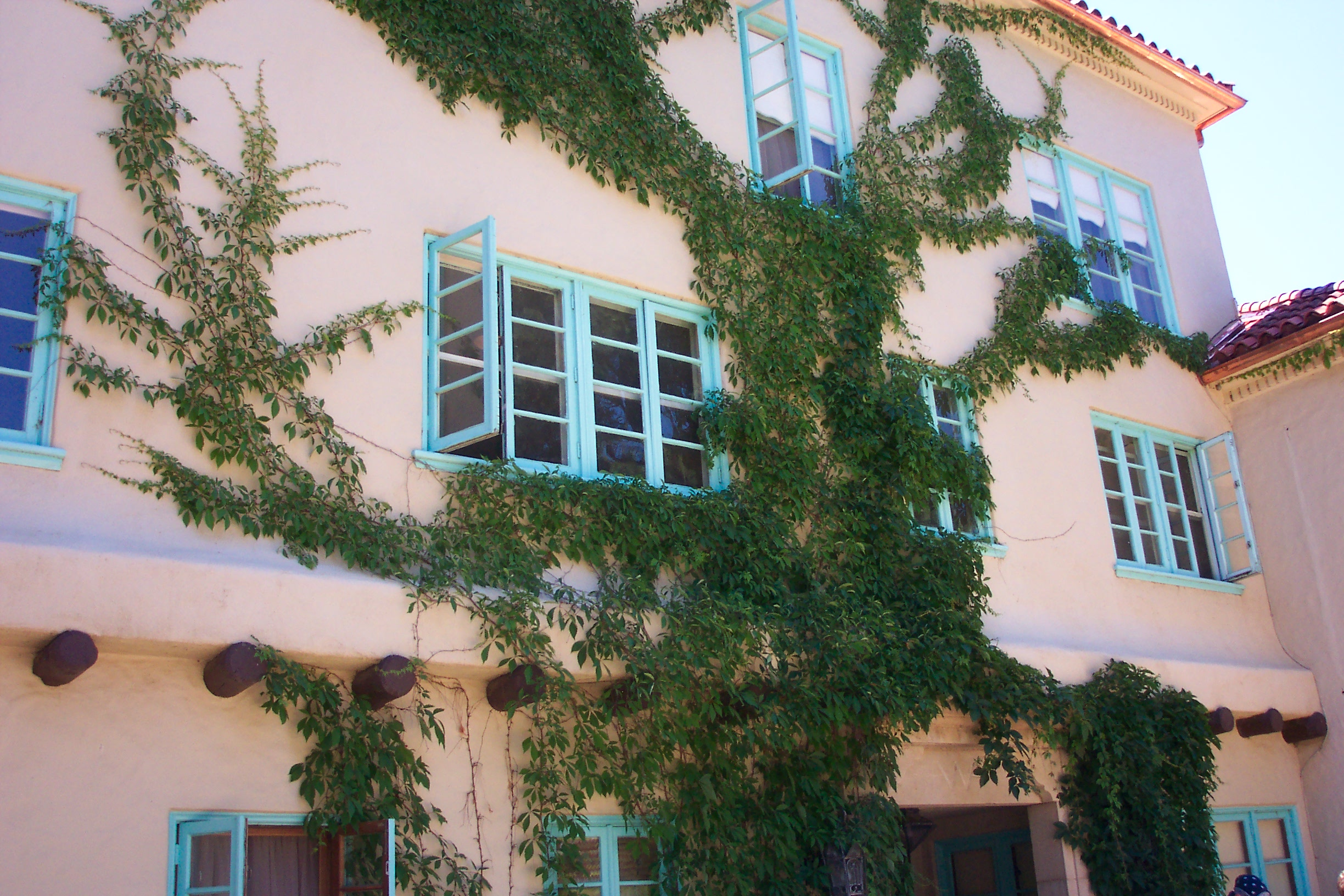 Created by myself on a trip to Philmont Scout Ranch.